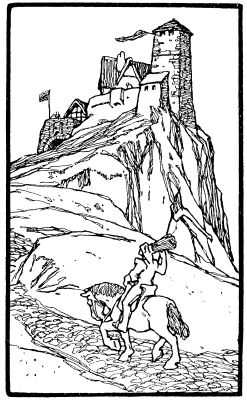 Illustration by Otto Ubbelohde to the fairy tale The Water of Life